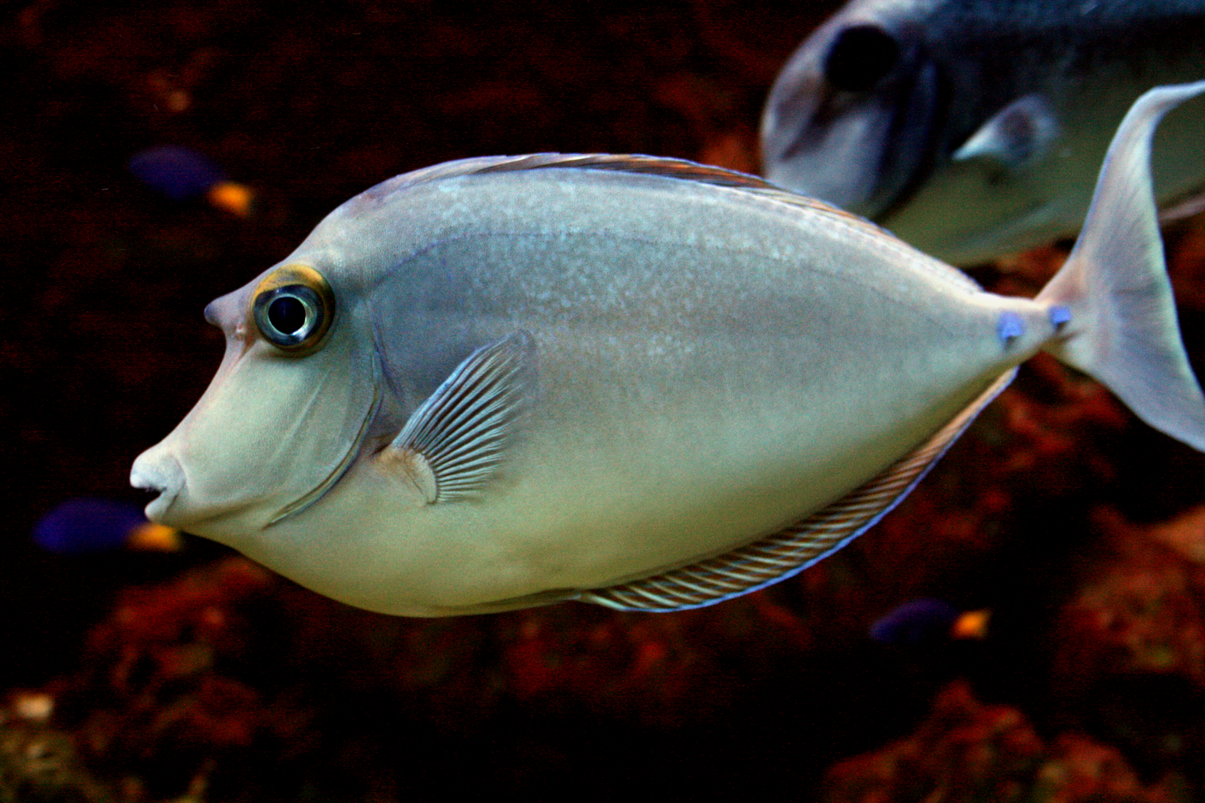 Fish Naso unicornis in Prague sea aquarium, Czech Republic